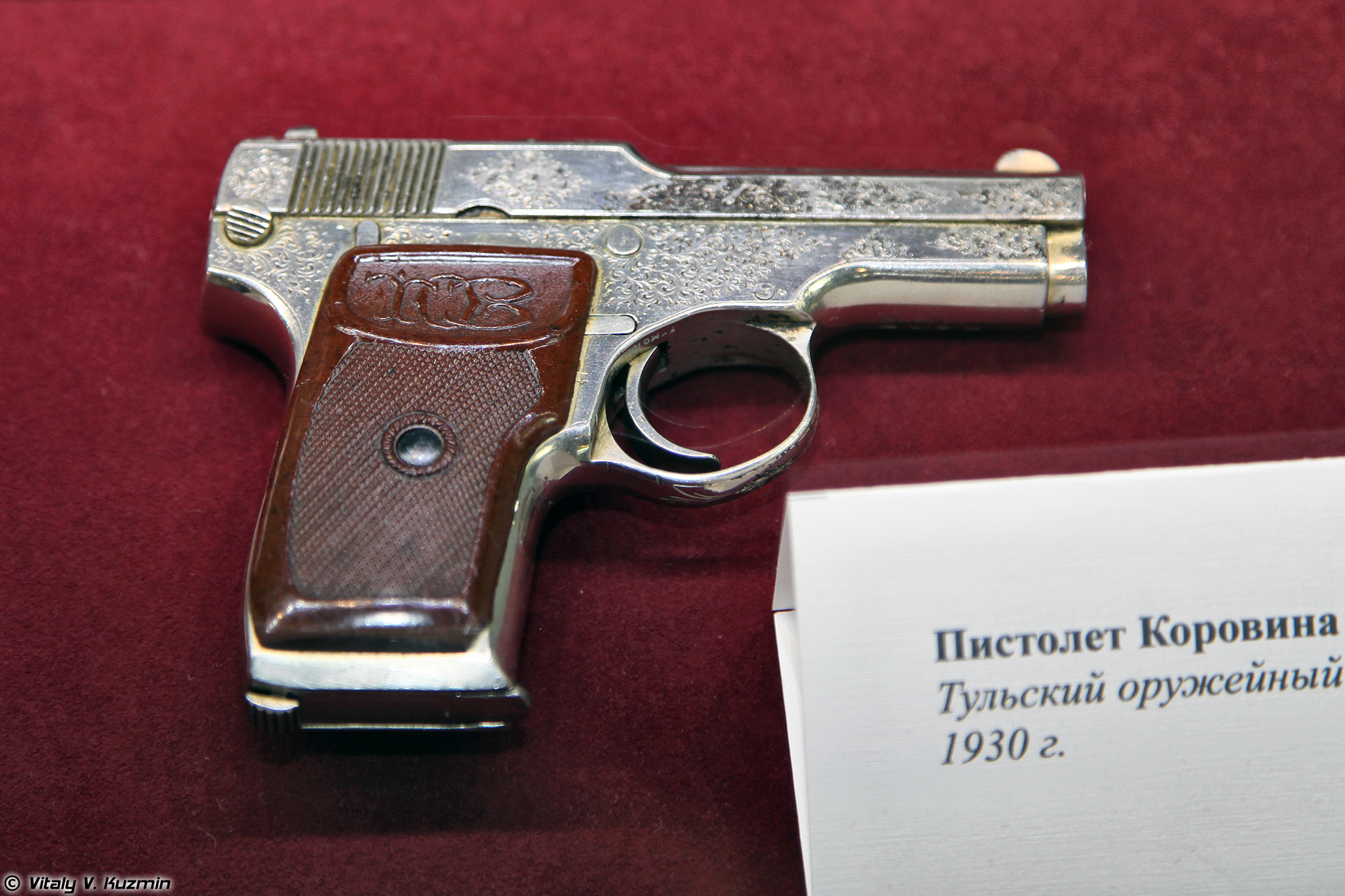 Korovin pistol TK